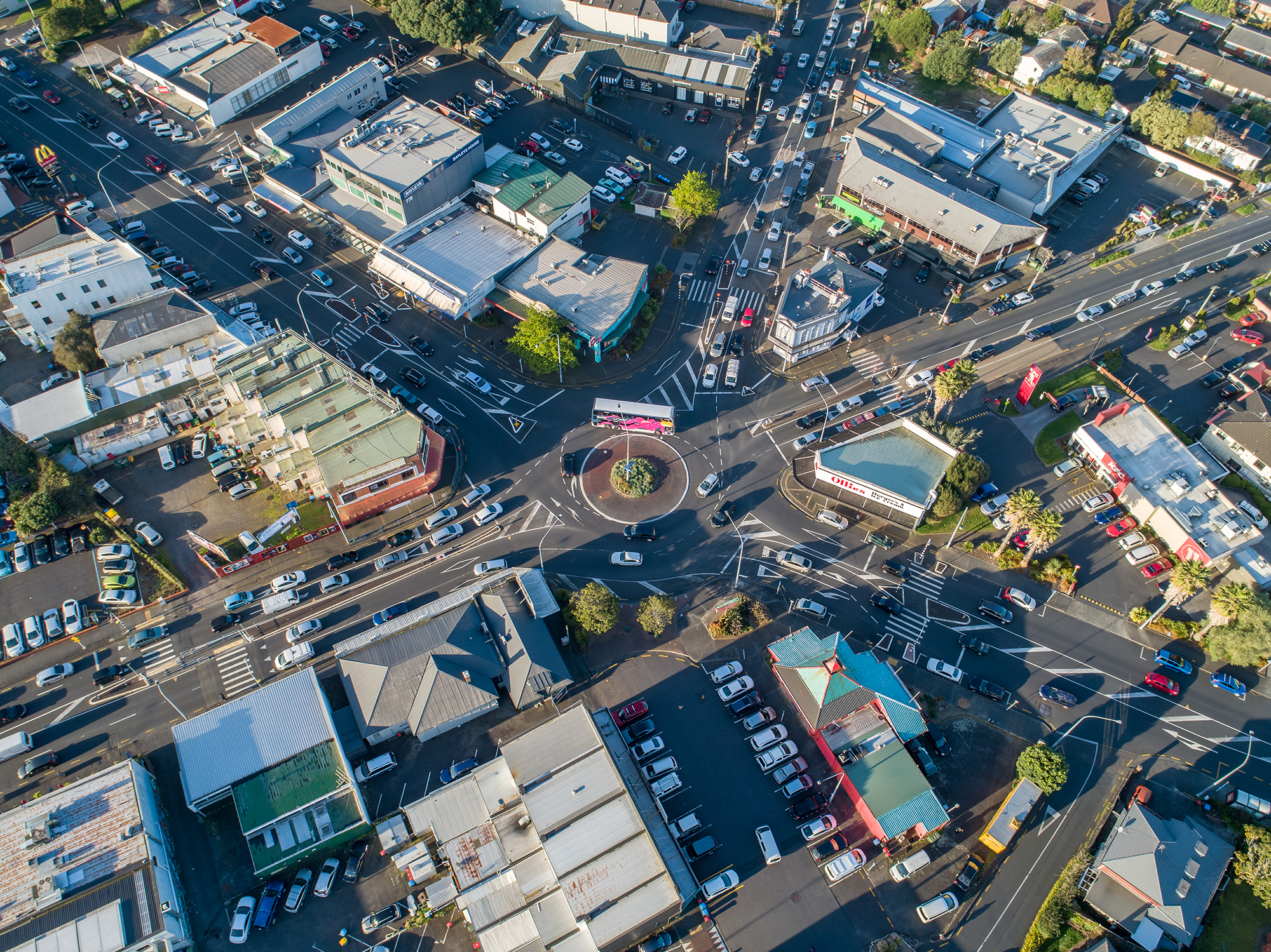 Drone aerial photograph showing Royal Oak roundabout, Auckland, New Zealand